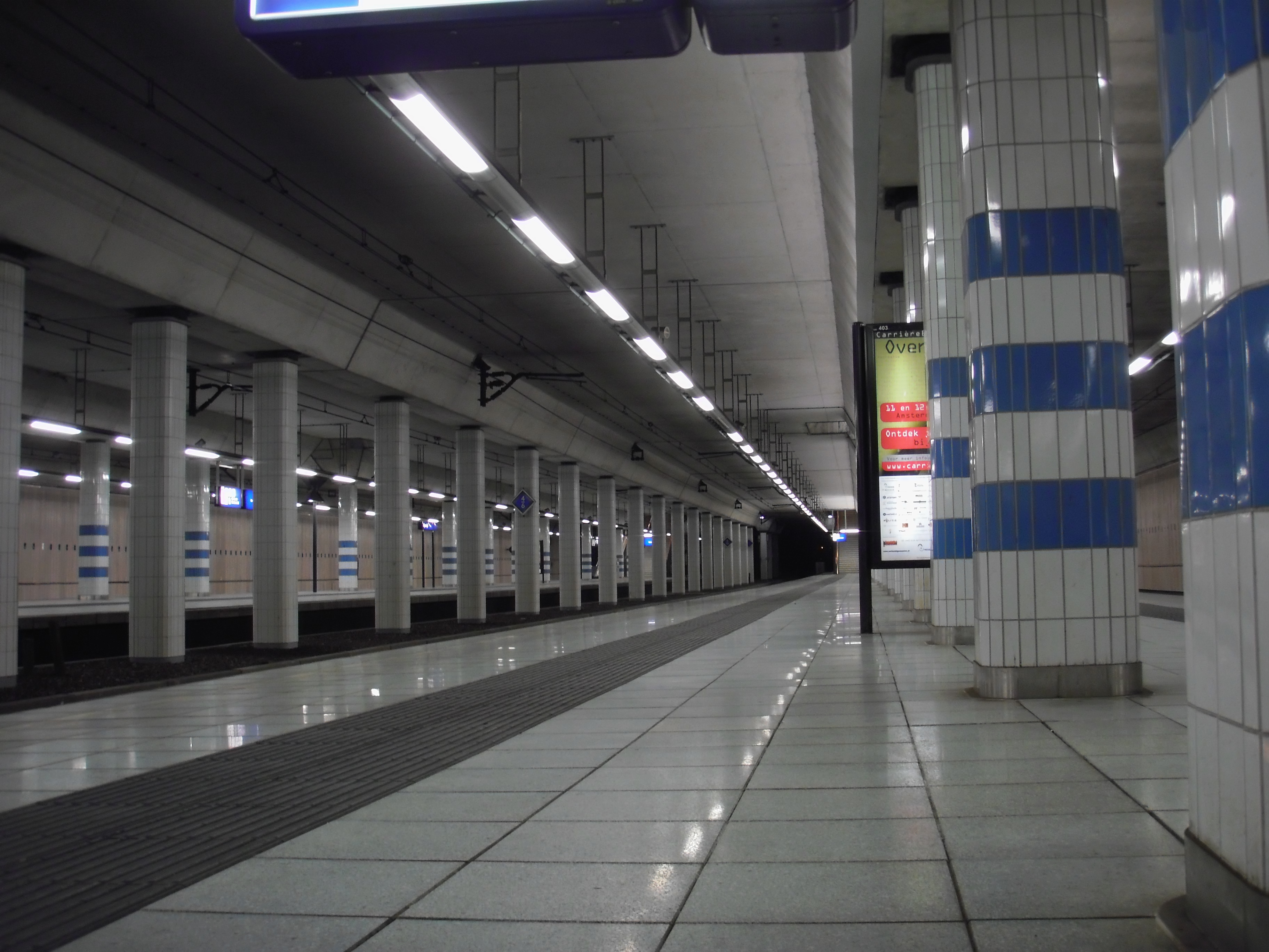 Station Rijswijk 2009